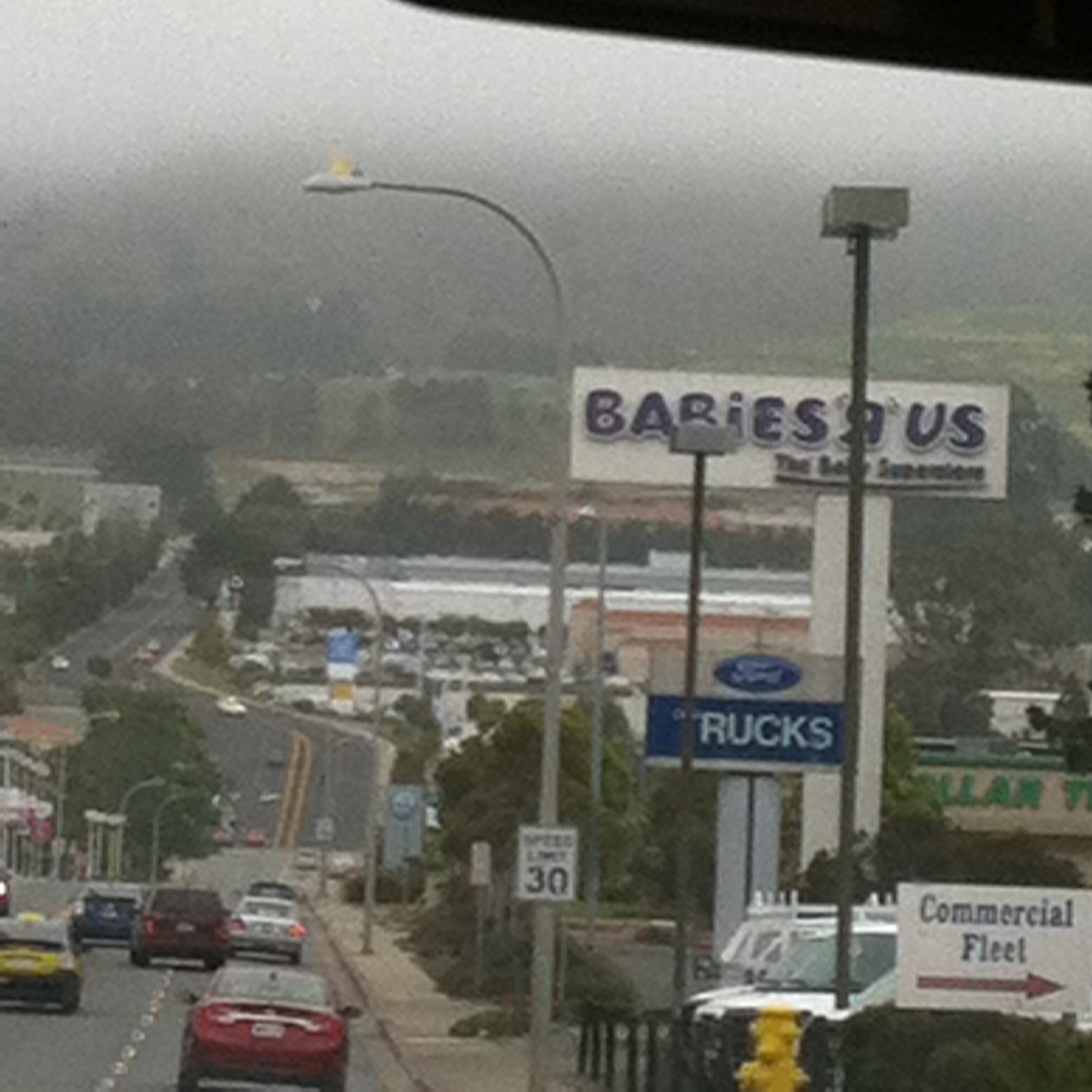 Serramonte Road, the main street